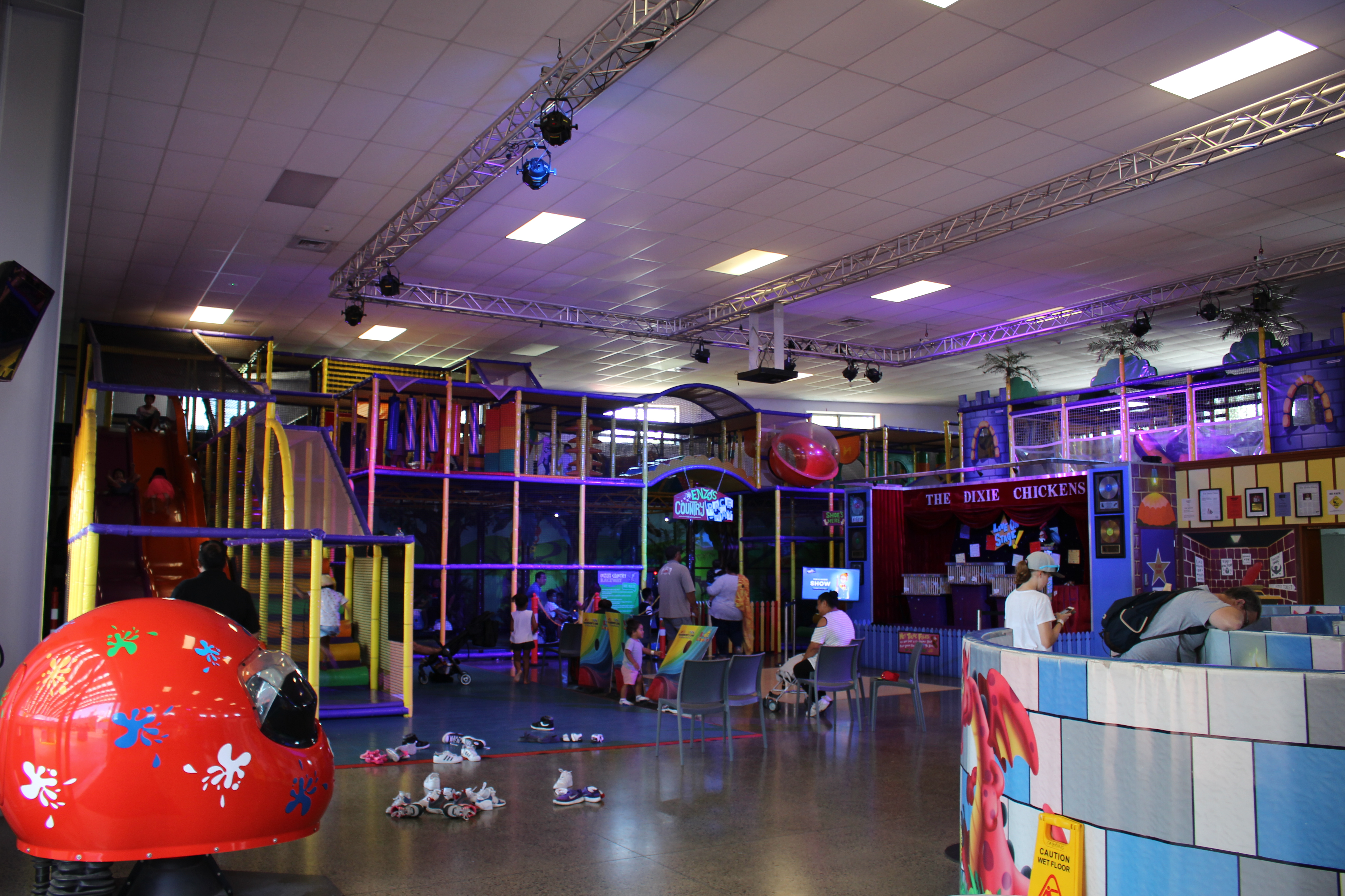 Rainbow's End Kidz Kingdom Indoor